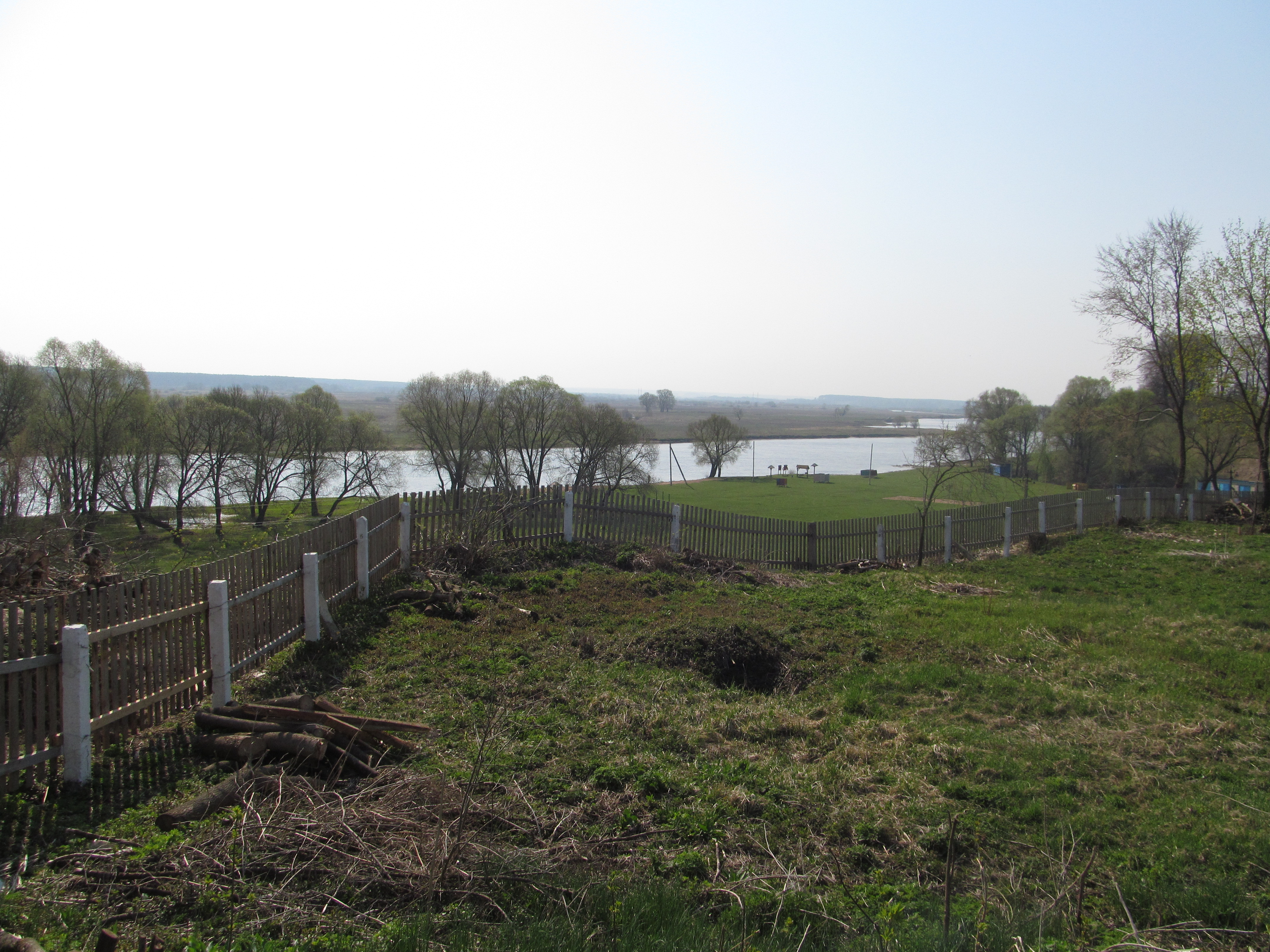 Castle hill town of Krichev (Belarus), the North-Eastern side. Sozh River